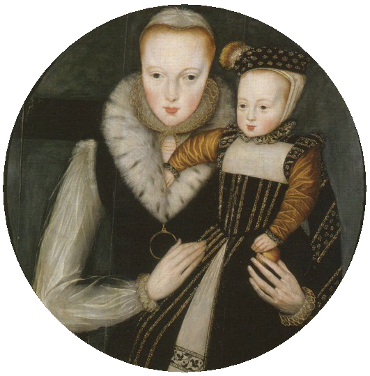 Portrait of Lady Katherine or Catherine Grey (25 August 1540 - 26 January 1568) and her son Edward Seymour, Lord Beauchamp of Hache (21 September 1561 – 21 July 1612).